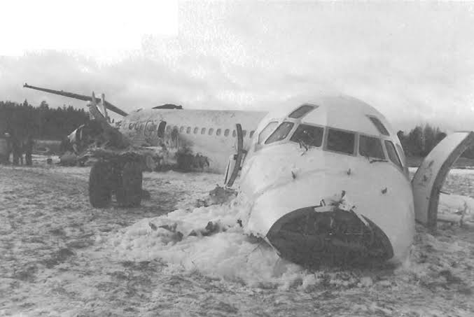 Scandinavian Airlines Flight 751 wreckage